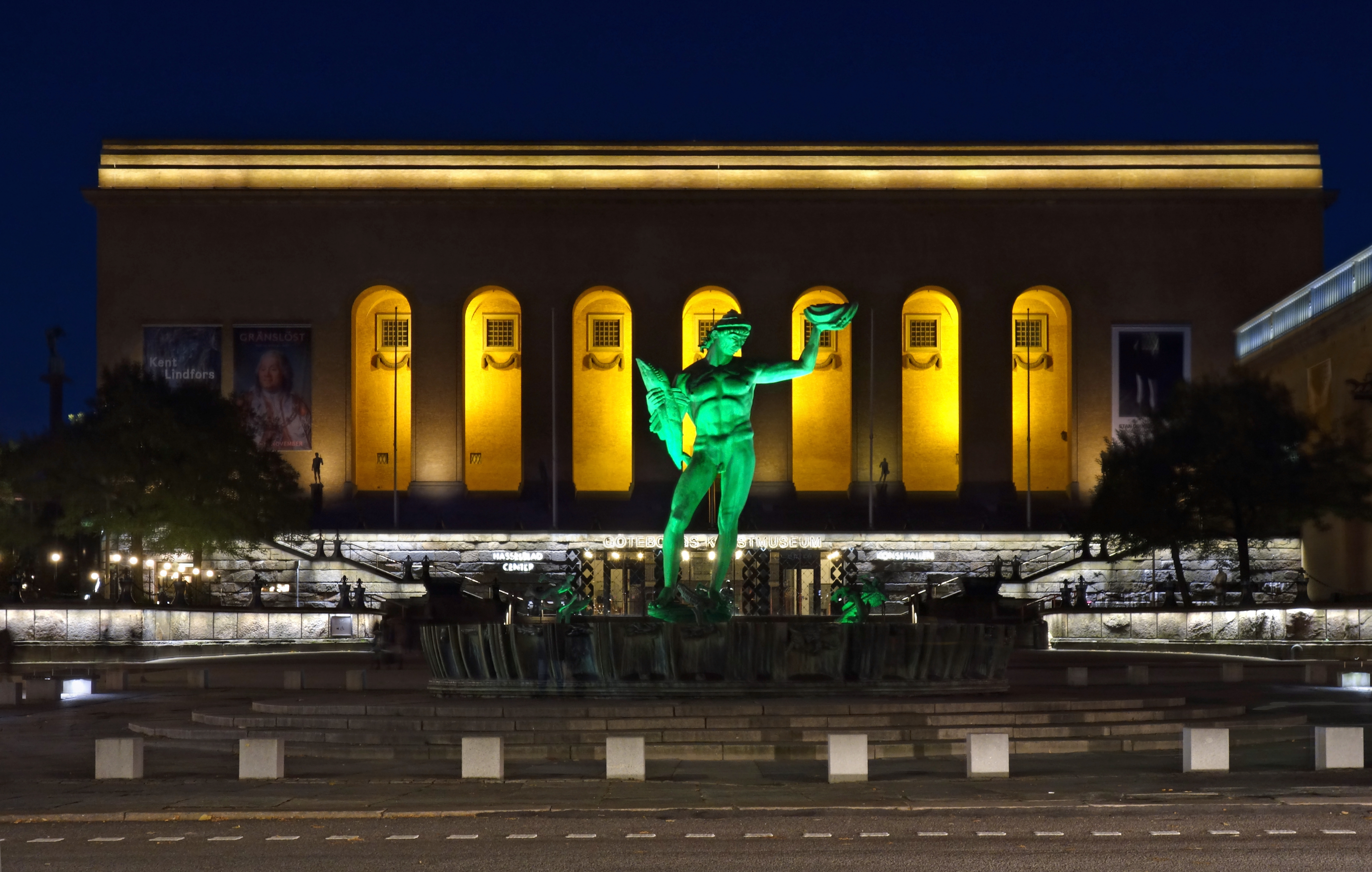 Götaplatsen with the Poseidon statue at night. Gothenburg, Sweden.